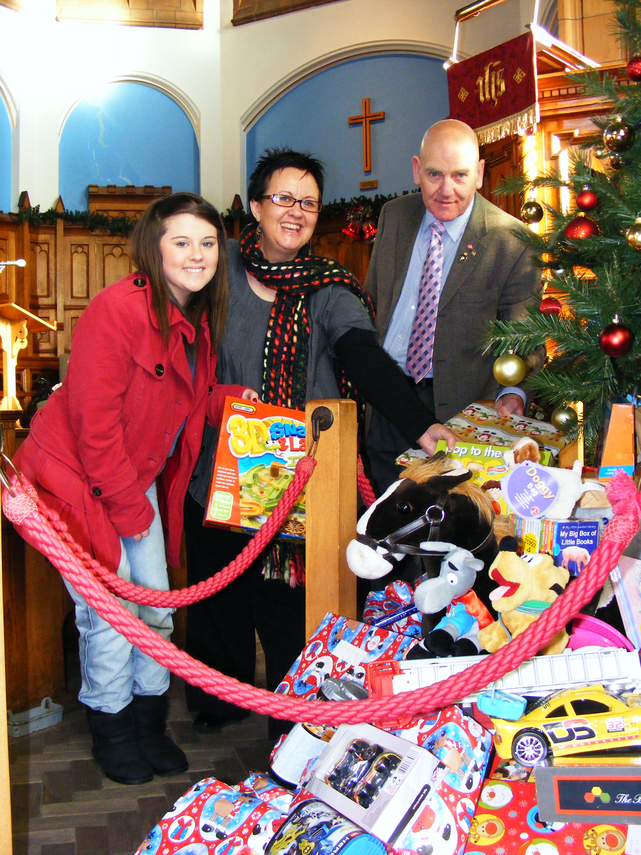 Gifts from the Christmas toy appeal 2010 being received by Mrs Anna Hartland of the Loaves 'N' Fishes charity organisation.